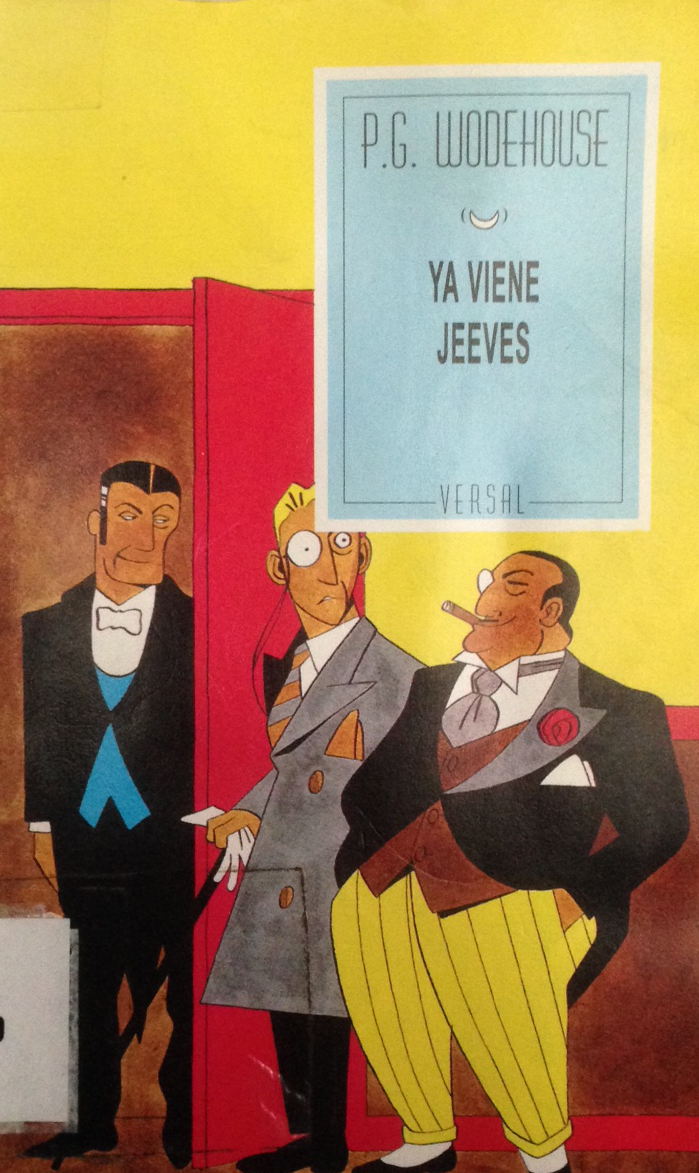 Cover book "Ya viene Jeeves"